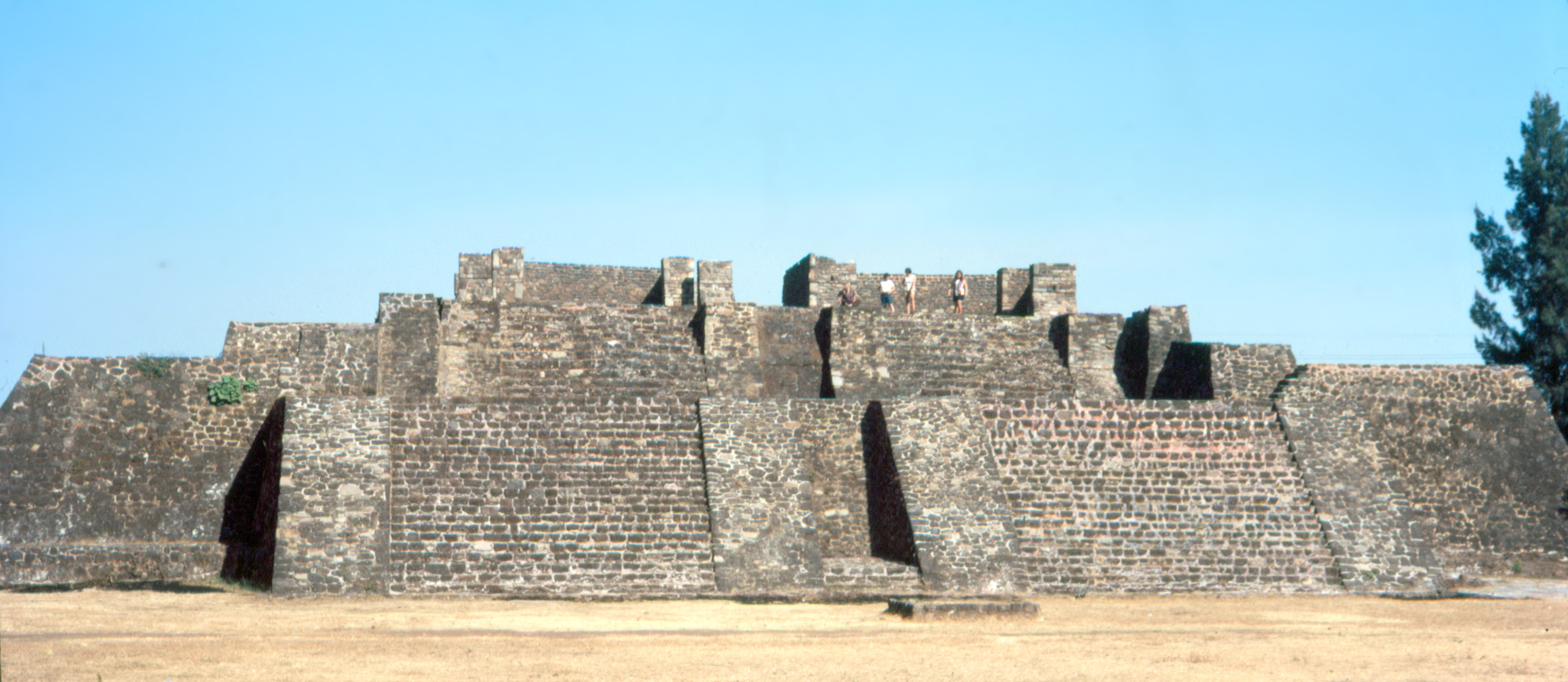 Teopanzolco (Cuernavaca), Morelos, Mexico: twin temple